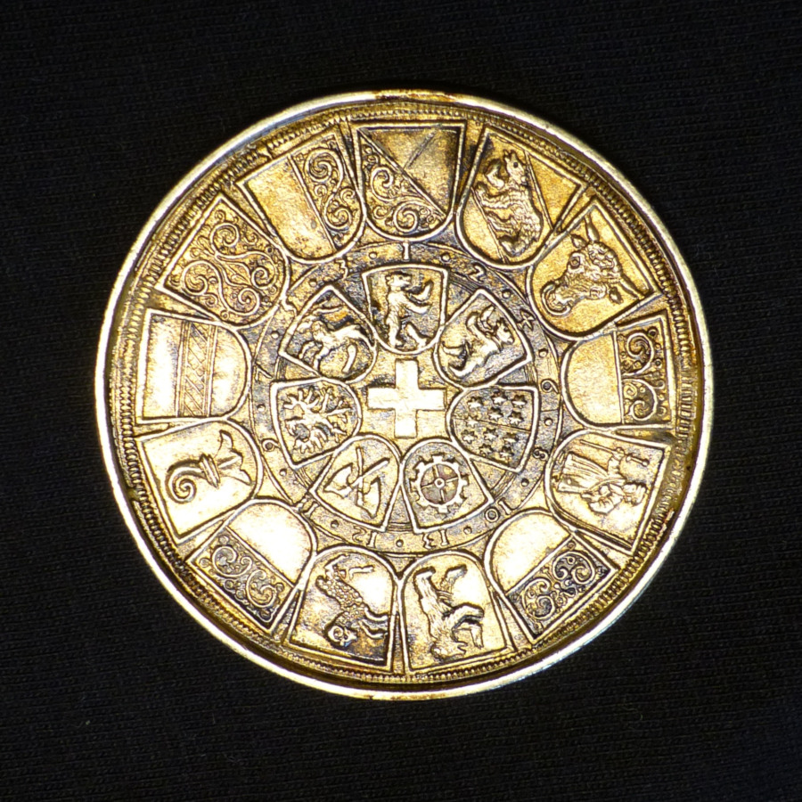 "Bundestaler" by Jacob Stampfer (reverse side). Designed in ca. 1546, this medal was very successful and was frequently recast over the later decades of the 16th century. Thirteen Cantons, numbered 1-13 (in order of precedence top to bottom [order of Fribourg, Solothurn not distinguisable without tincture]): 1. Zürich, 2. Bern, 3. Luzern, 4. Uri, 5. Schwyz, 6. Unterwalden, 7. Zug, 8. Glarus, 9. Basel, 10. Fribourg, 11. Solothurn, 12. Schaffhausen, 13. Appenzell. Seven Associates (in same order of precedence top to bottom) St. Gallen (abbot), St. Gallen (city), Three Leagues (represented only with the ibex of the Lega Caddea, c.f. Simmler 1576), Wallis, Rottweil, Mühlhausen, Biel. This is one of the earliest depictions of a "Swiss cross" in heraldic context (an equilateral cross in the center of the cantonal coats of arms); heraldic use of what used to be a field sign attached to banners originates in this period; the first mention of a "Confederate cross" (Eidgenossen Crütz) dates to 1533. The elongated limbs of the Swiss cross as shown here have a length-to-width ratio of about 1.25 to 1.33, i.e. slightly more elongated than the modern standard of 7:6 = 1.17. obverse: File:Bundestaler IS obv.jpg